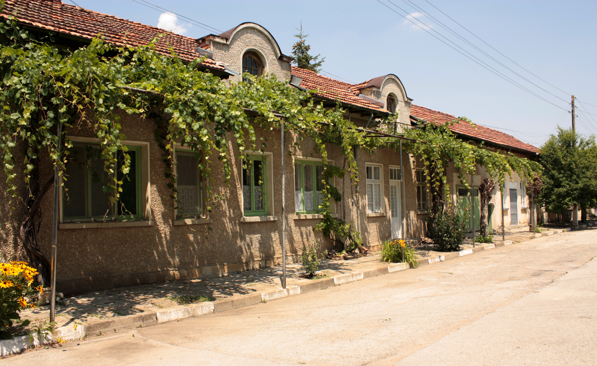 A street in Krushuna village, Bulgaria